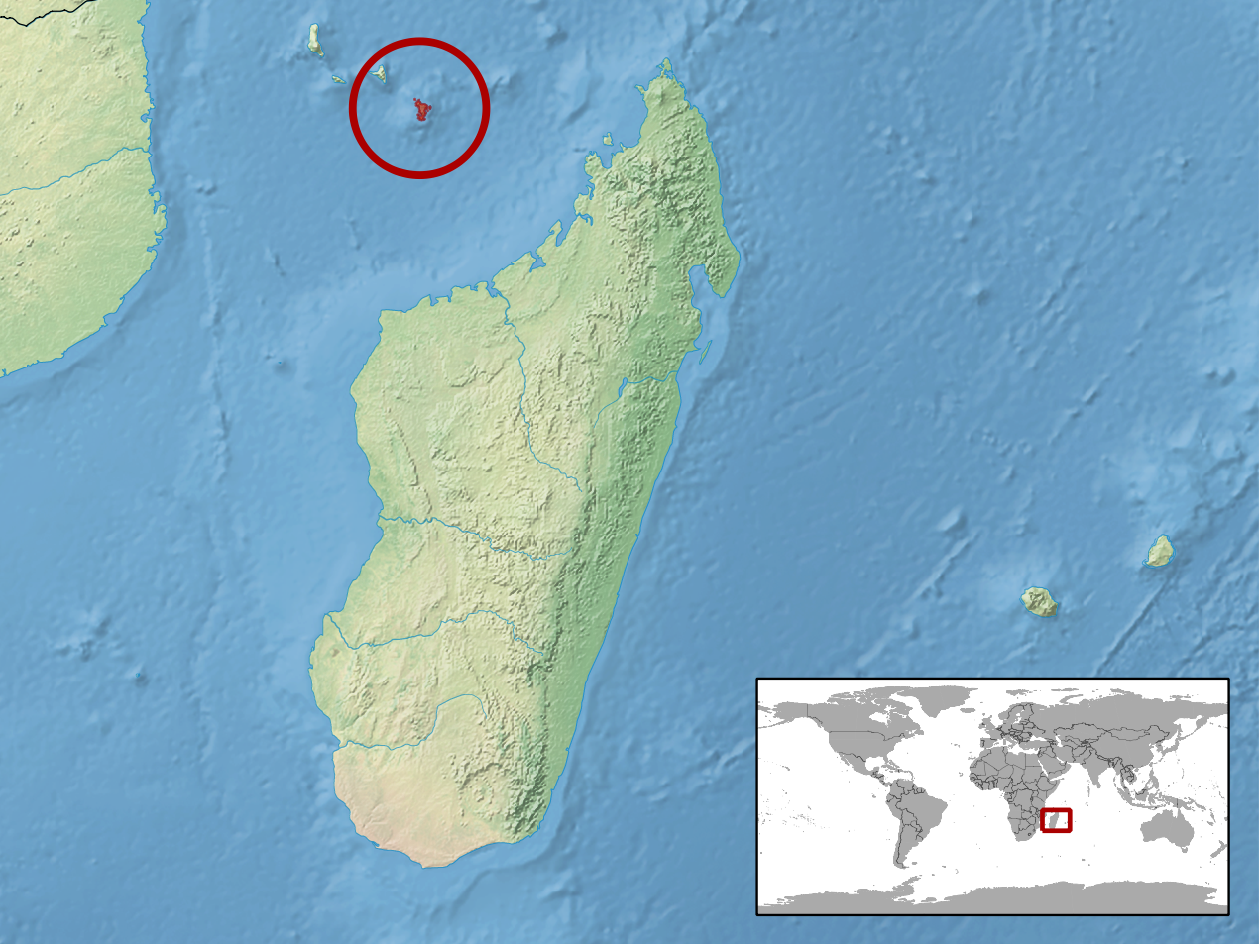 geographic distribution of Phelsuma nigristriata (Native: Mayotte)